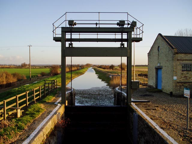 Lock at the end of Swaffham Bulbeck Lode, Cambridgeshire, England Lock gate at the end of Swaffham Bulbeck Lode